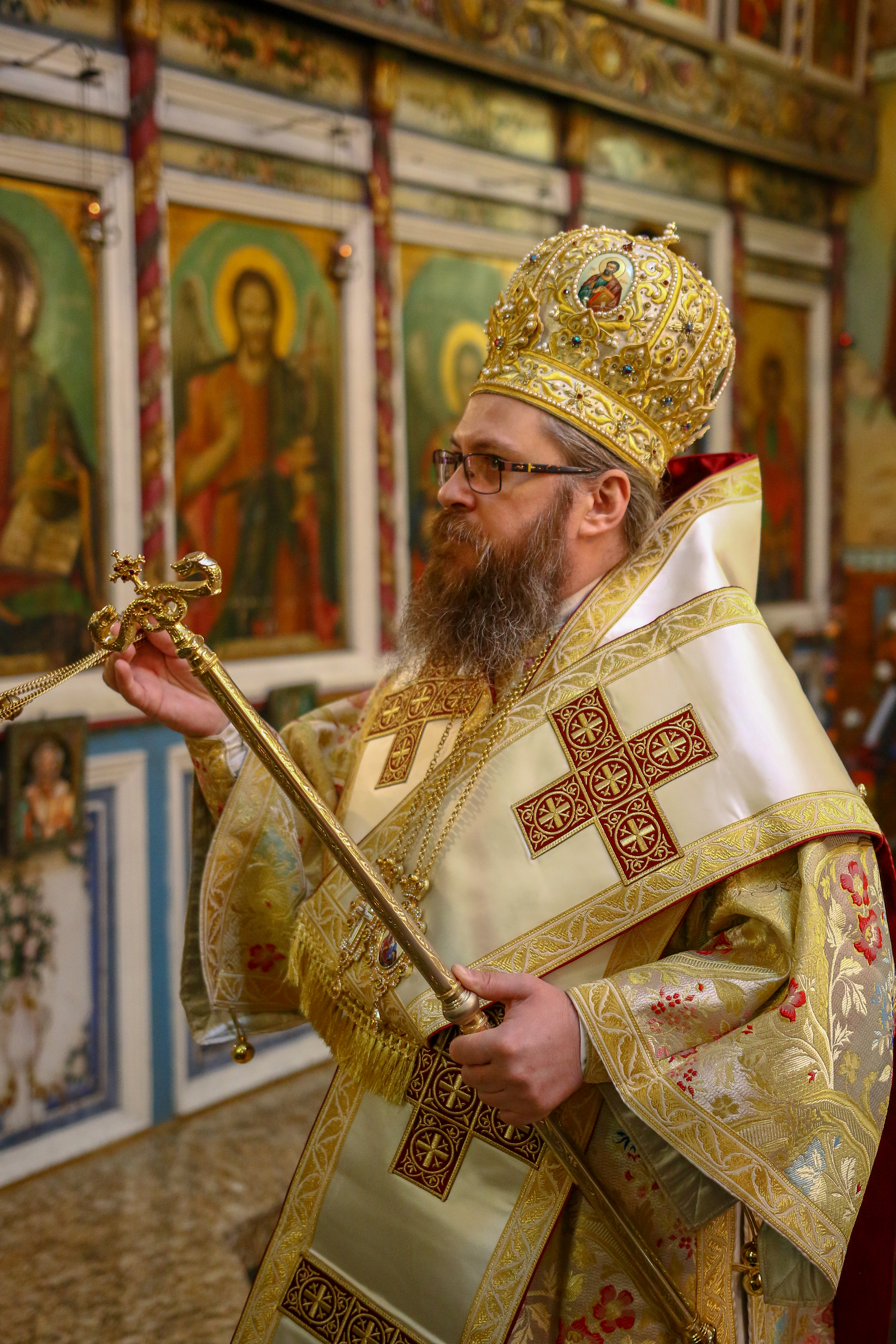 Bishop Polycarp of Belogradchik